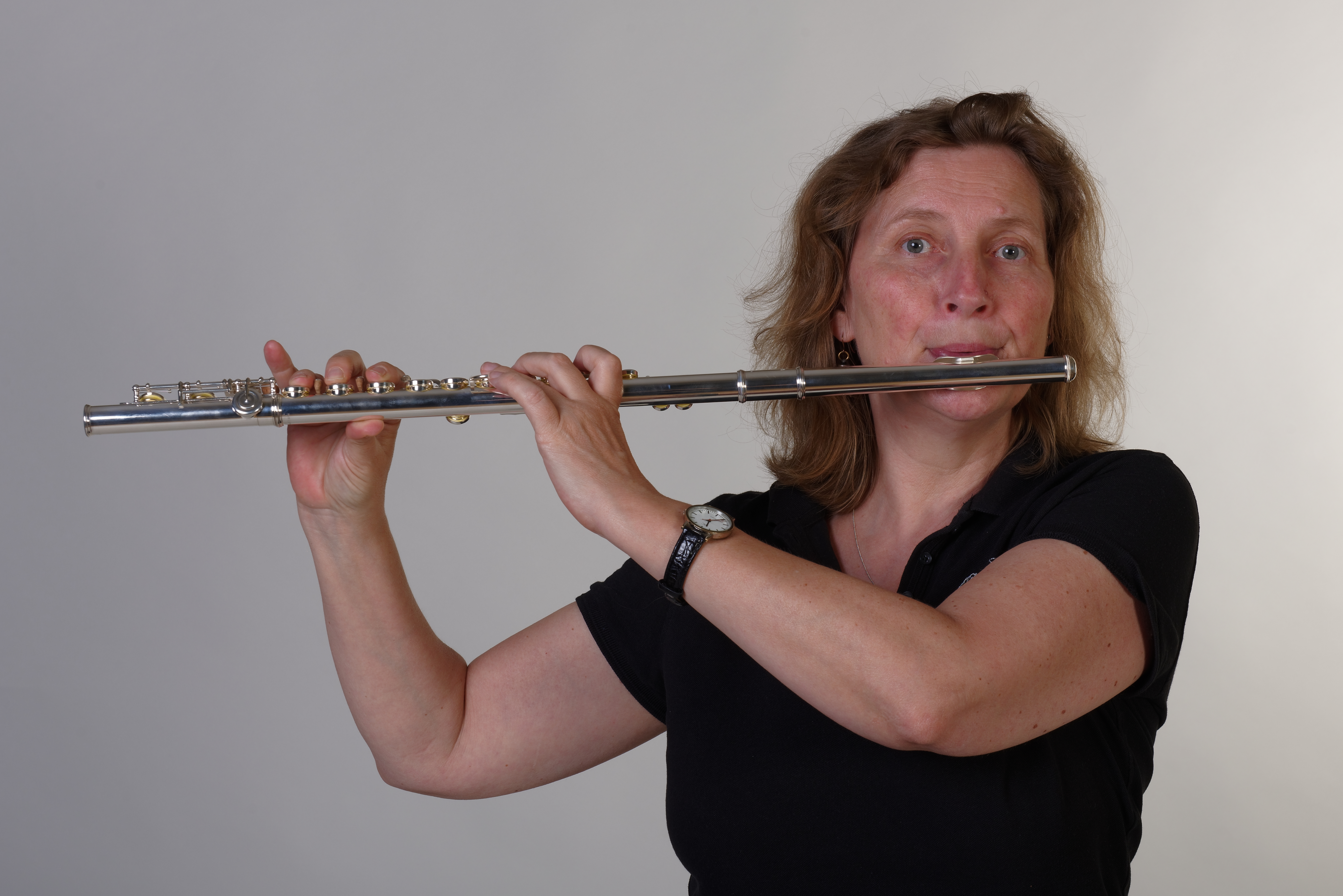 Personality rights warning Although this work is freely licensed or in the public domain, the person(s) shown may have rights that legally restrict certain re-uses unless those depicted consent to such uses. In these cases, a model release or other evidence of consent could protect you from infringement claims.